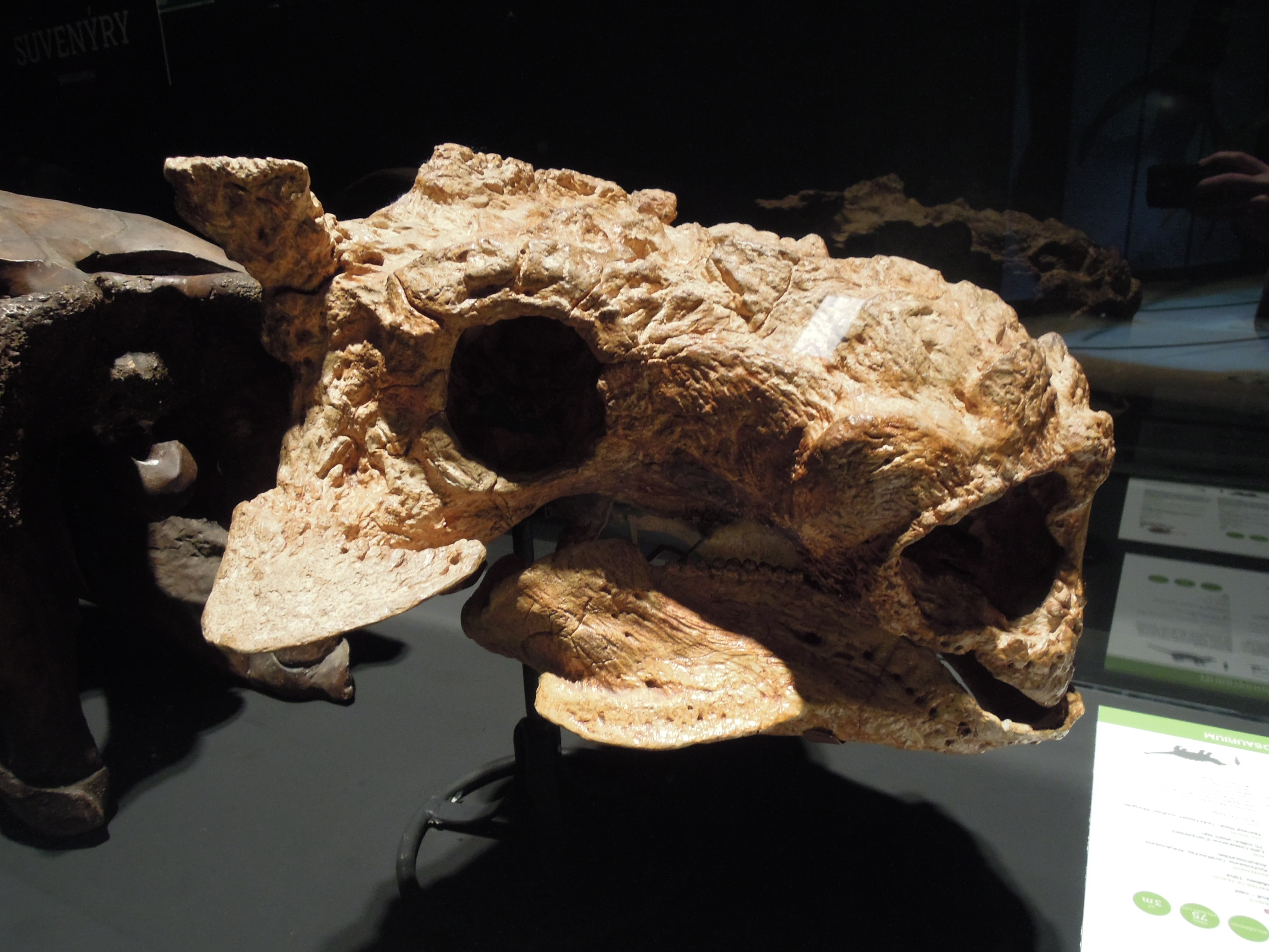 Tarchia gigantea, Dinosaurium exhibition, Prague, Czech Republic